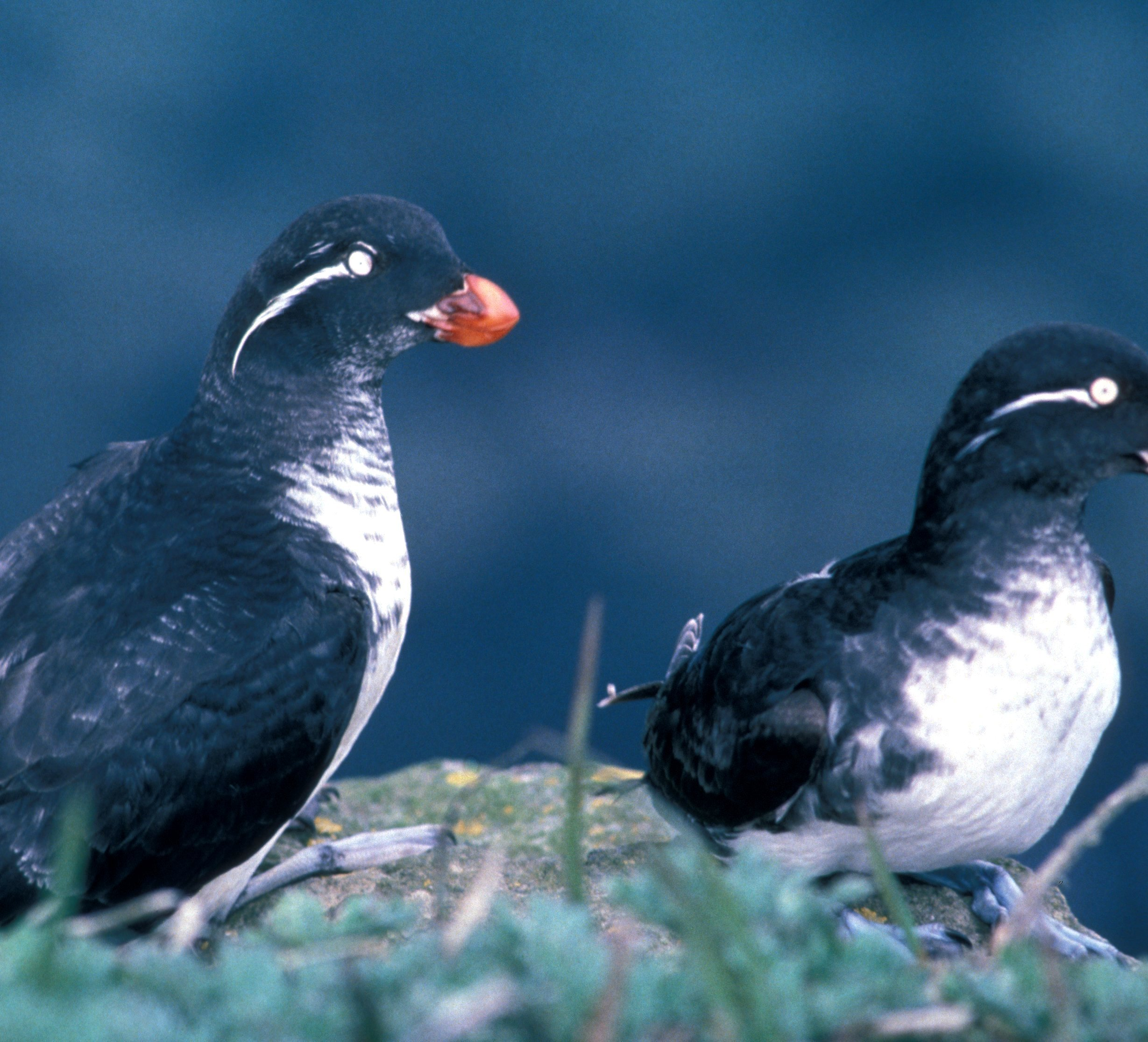 Parakeet auklets.